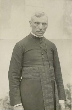 Jožef Klekl